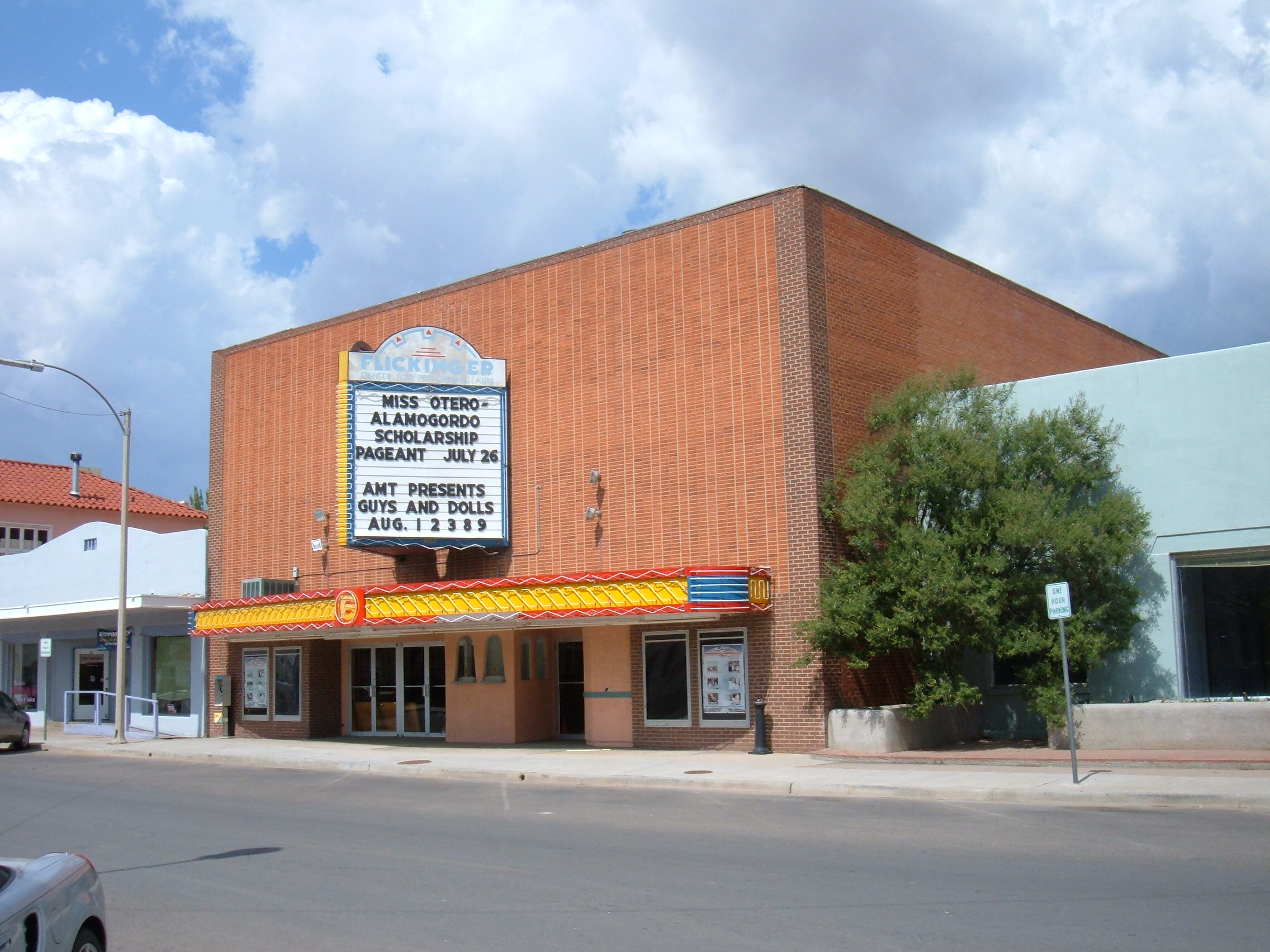 Flickinger Center for Performing Arts in Alamogordo, New Mexico, located at 1110 New York Avenue.